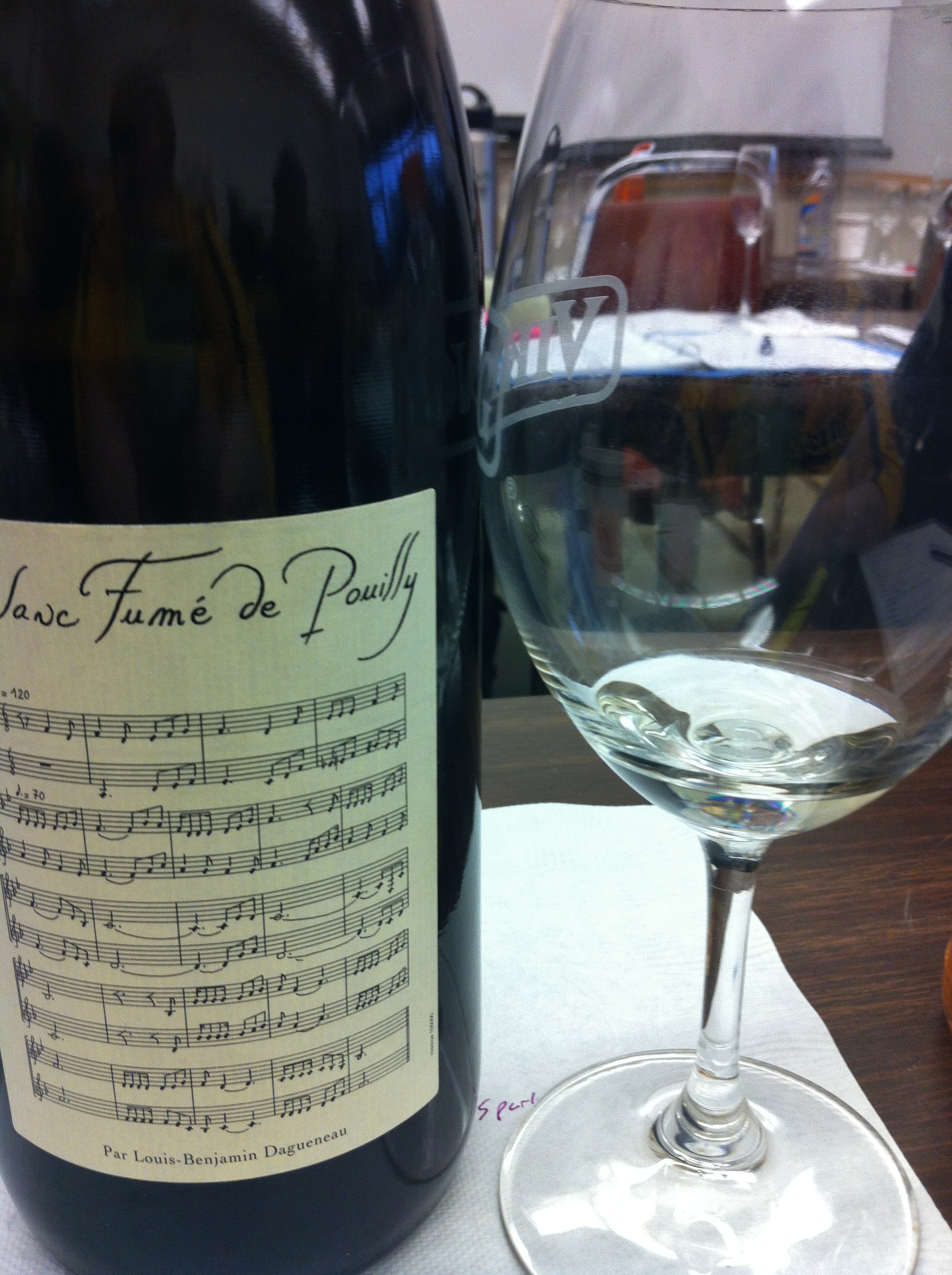 French Sauvignon blanc from the Pouilly Fume AOC of the Loire Valley